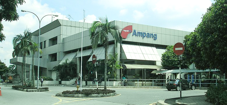 Ampang LRT station, front façade, 2008